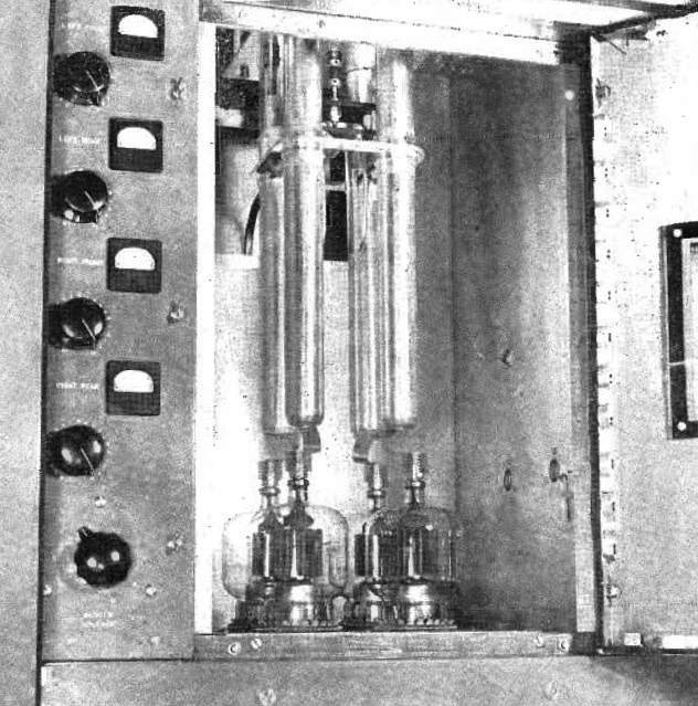 A 10 kW commercial FM radio transmitter produced in 1947 by Radio Engineering Laboratories, New York. The output stage shown here consists of 4 Eimac 4-1000A air cooled tetrodes driving 4 silver-plated aluminum parallel rod resonant stubs in push-pull. The 4 rods are shorted together with a strap at top to make 2 pairs of quarter-wave stubs. The 4 rod line has increased efficiency over the common 2 rod lines due to reduced electric field in the space surrounding the rods. The output stage is driven by a 750 W driver stage. Plate voltage = 4950 V, plate current = 2.48 A, grid voltage = 400 V, grid current = 400 mA, screen grid voltage = 300 V.